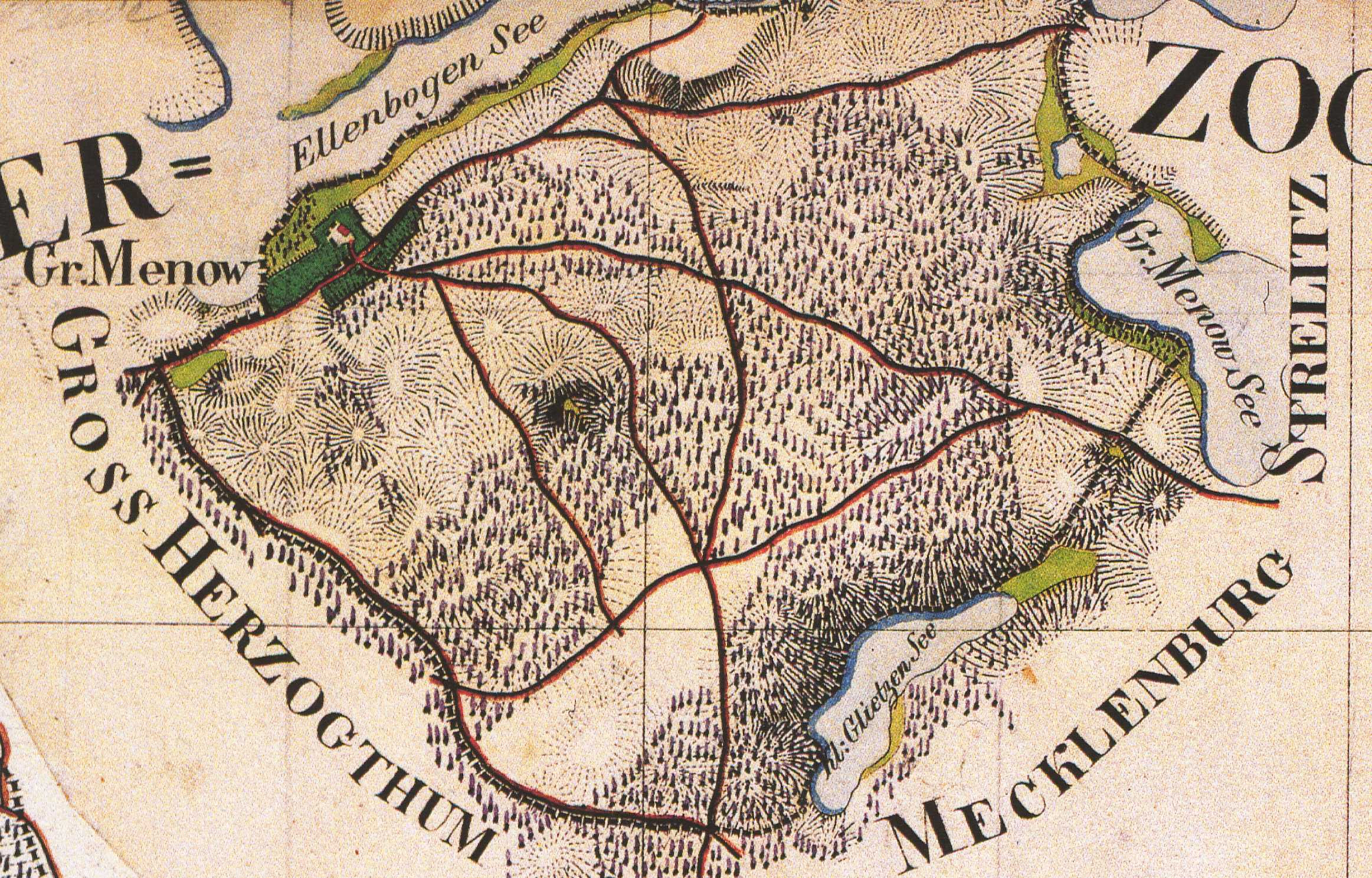 Großmenow, GT von Steinförde, OT von Fürstenberg/Havel, Lkr. Oberhavel, Brandenburg, Ausschnitt aus dem Urmesstischblatt Blatt 2844 fürstenberg von 1825